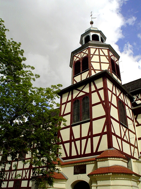 Jawor - Lutheran Peace church